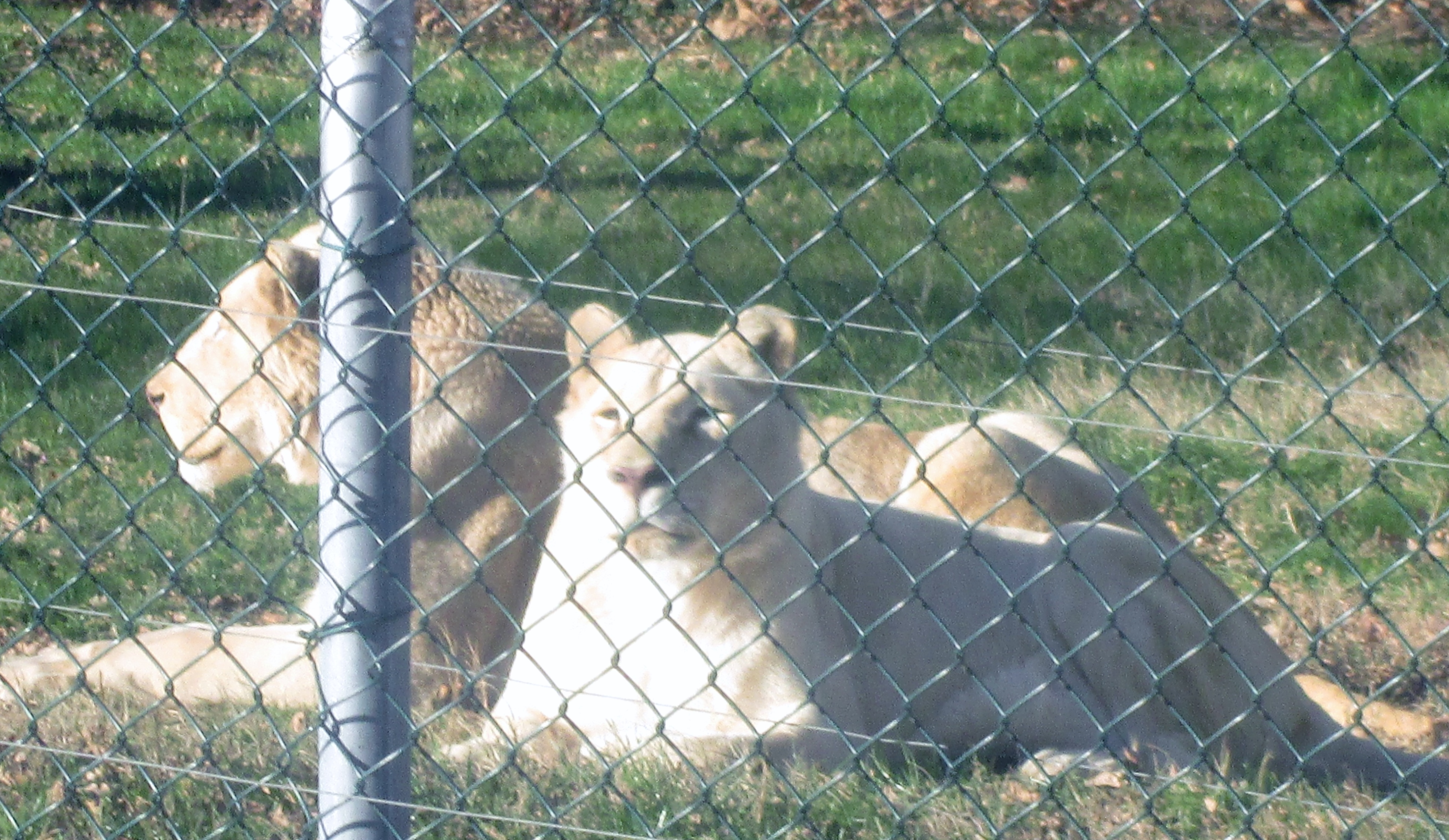 Couple of White Lions in Pombia Safari Park ITALY